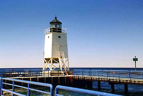 Depicted place: Charlevoix South Pier Light Station